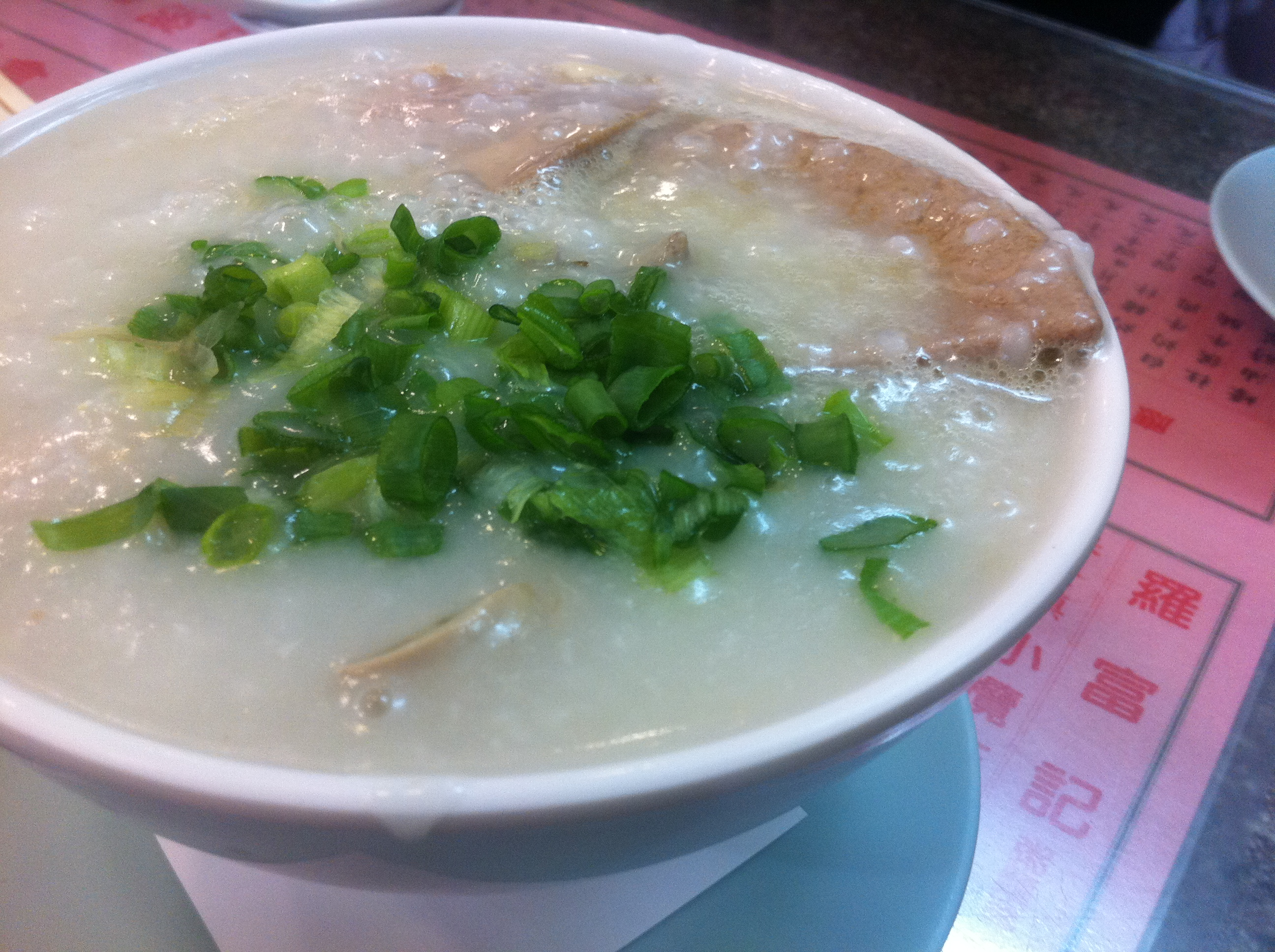 中文（香港）: 米芝蓮 食肆 listed restaurant 羅富記粥麵專家 Law Fu Kee Noodle shop